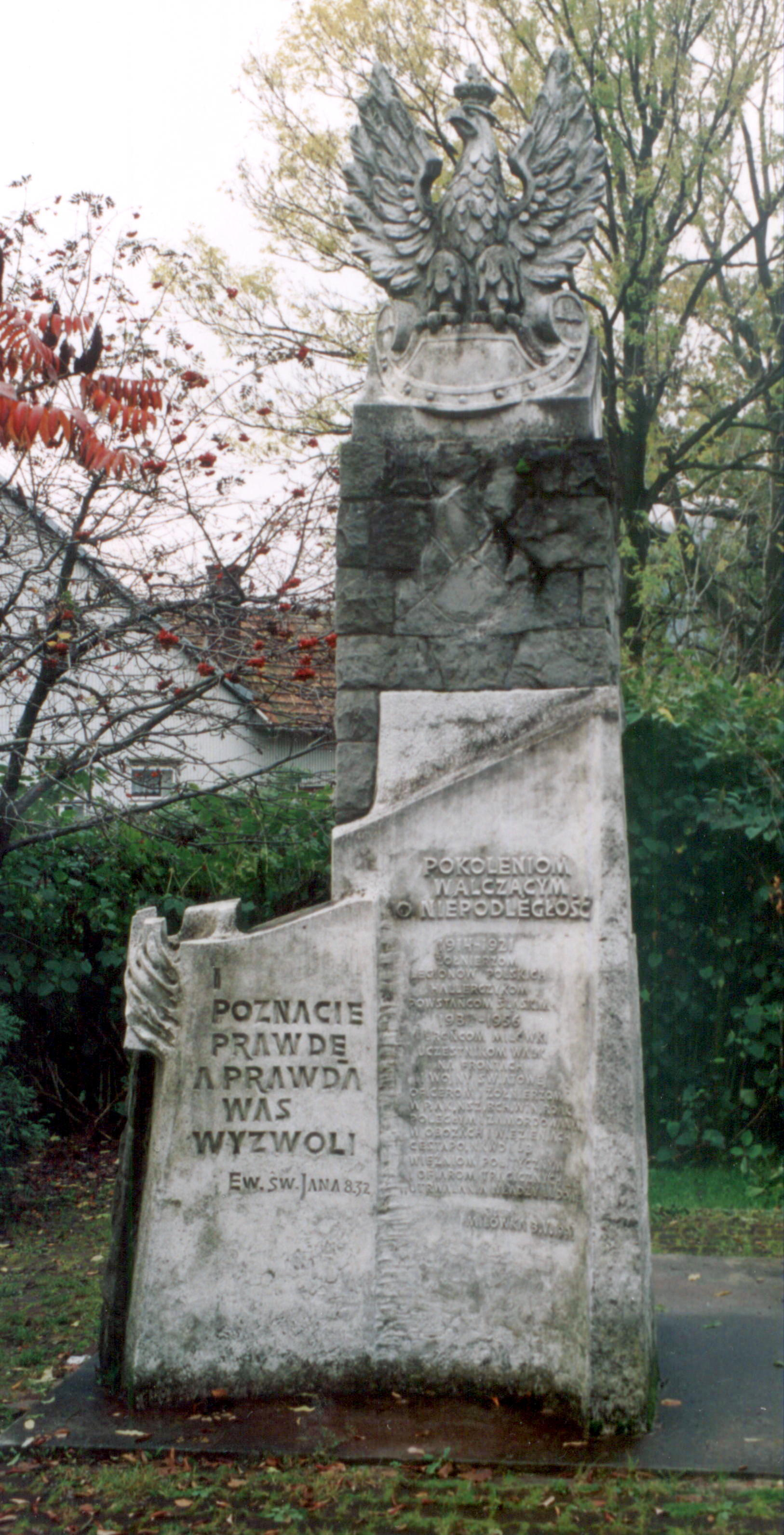 Author: Przykuta Date: Octobr 2005